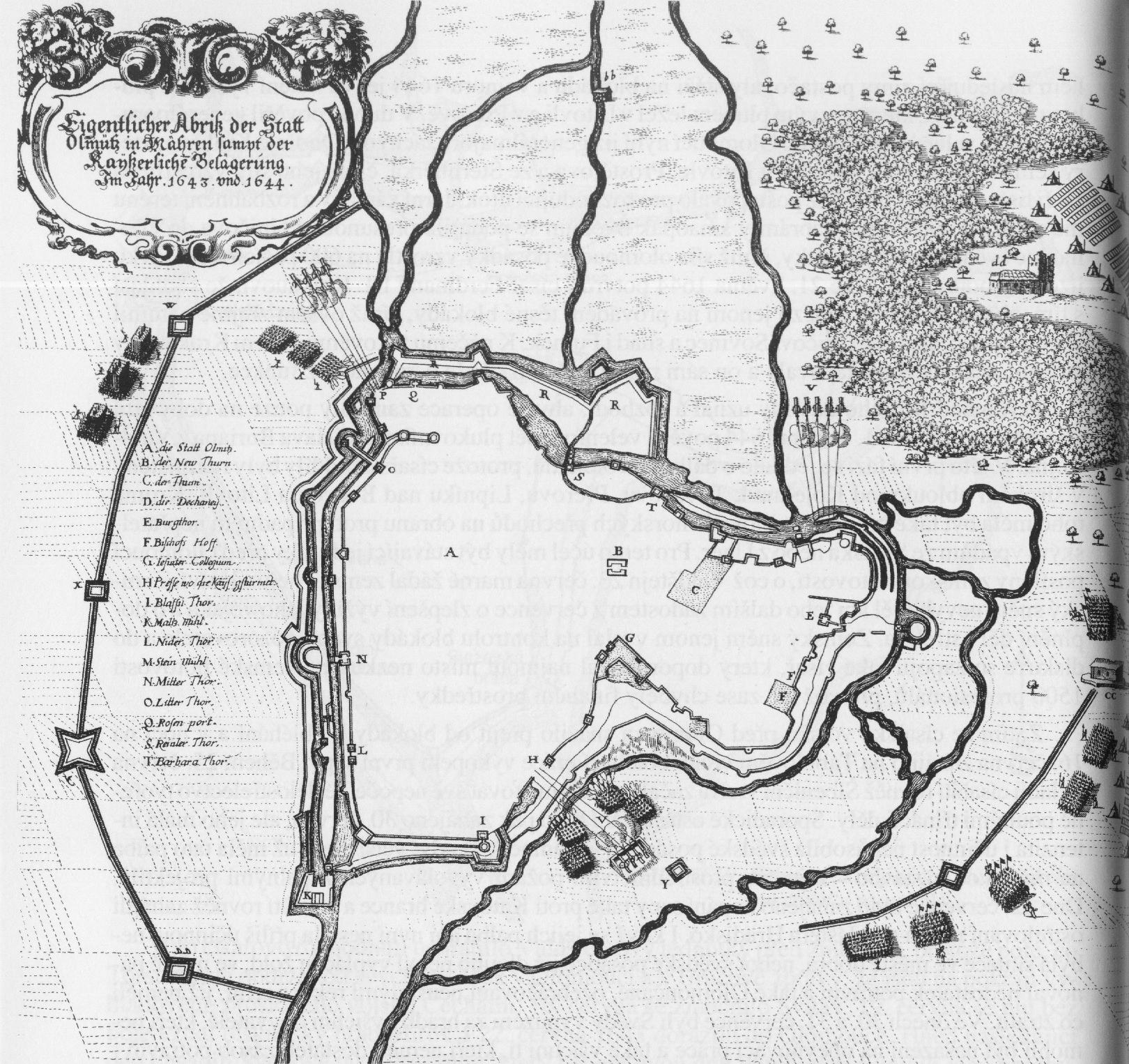 Historcal map of siege of Olomouc (Czech Republic) in 1643 and in 1644. From Merian, Matthäus (1650) Topographia Bohemiae, Moravia et Silesiae. - Frankfurt am Main.